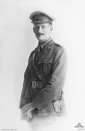 Studio portrait of Lieutenant (Lt) Charles Pope VC, 11th Battalion, Australian Imperial Force. Formerly of London, killed in action on 15 April 1917 at Louverval, France. Pope was posthumously awarded the Victoria Cross for "most conspicuous bravery and devotion to duty when in command of a very important picquet post in the sector held by his battalion, his orders being to hold this post at all costs." Pope's post had been heavily attacked and he was short of ammunition, while waiting for more ammunition the enemy attacked again and Pope charged with his picquet and was killed.